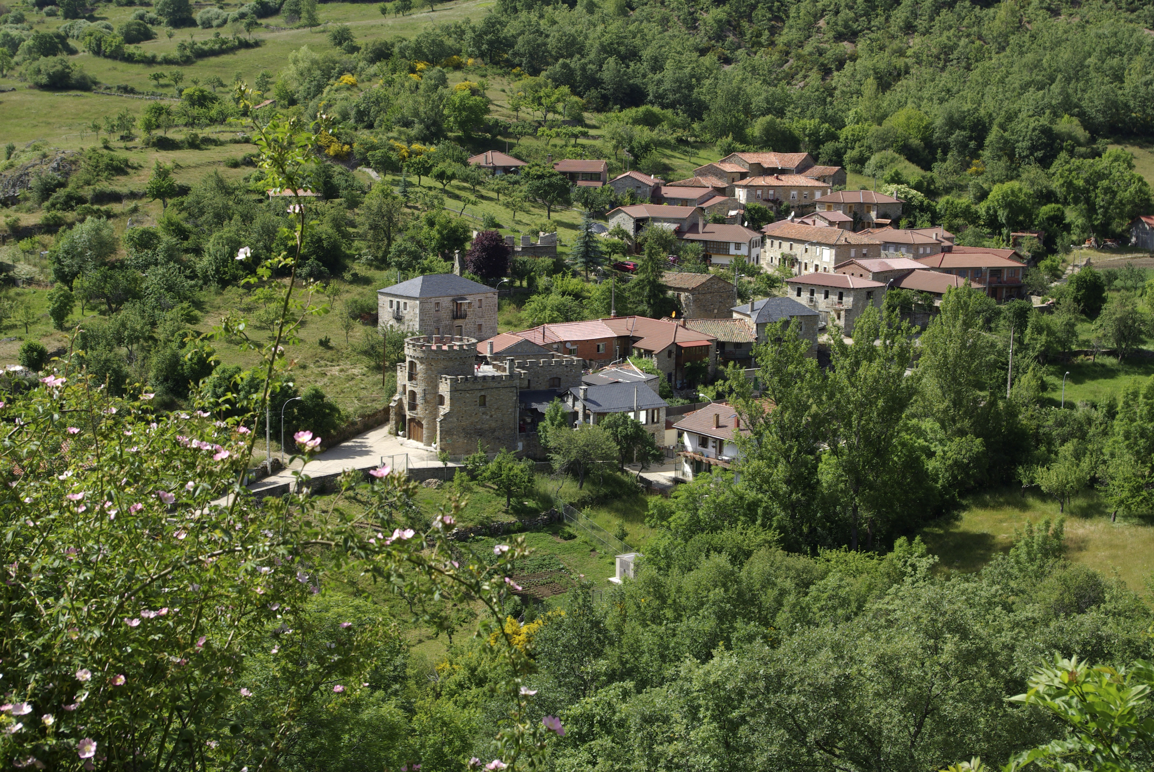 Piedrasecha (Carrocera, León, Spain).